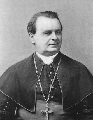 An image of Archbishop Ryan